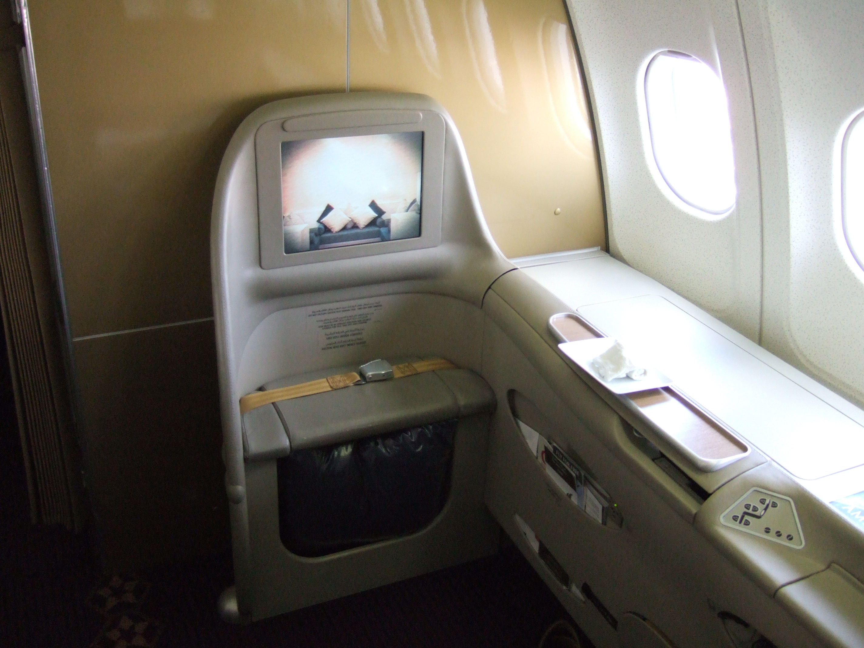 Gulf Air First class